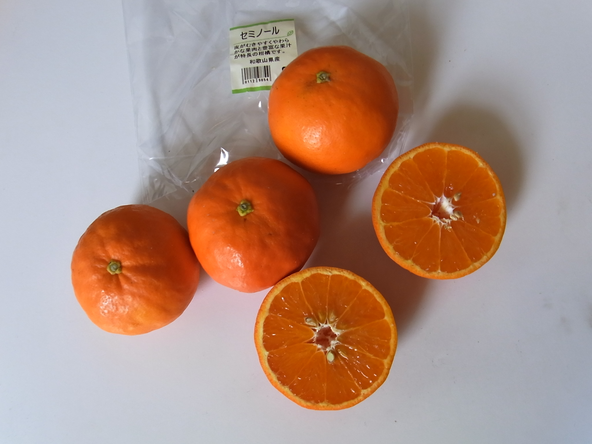 Seminole,Tangelo Citrus,wakayama pref, japan